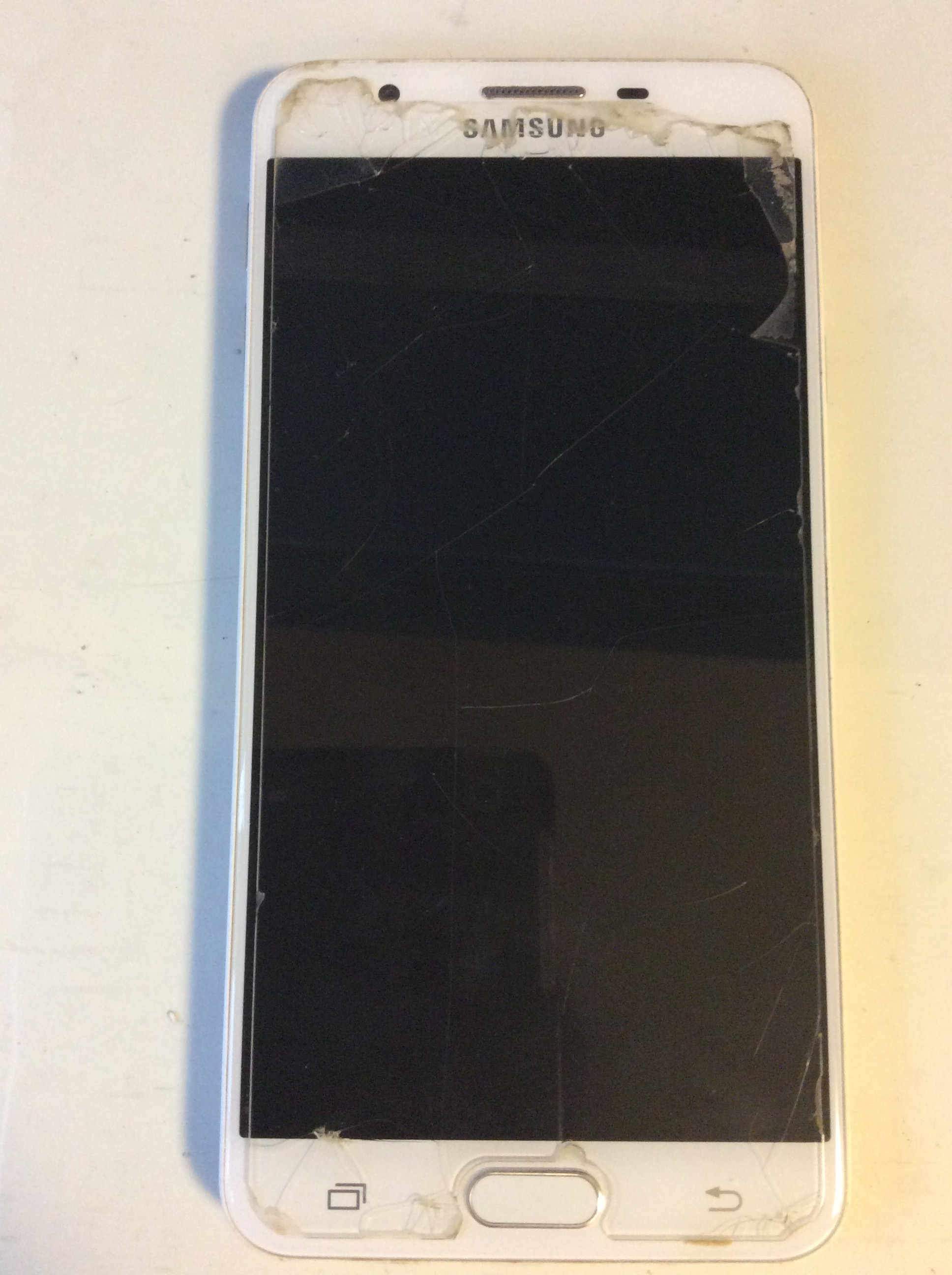 One of Samsung's phones launched in 2016